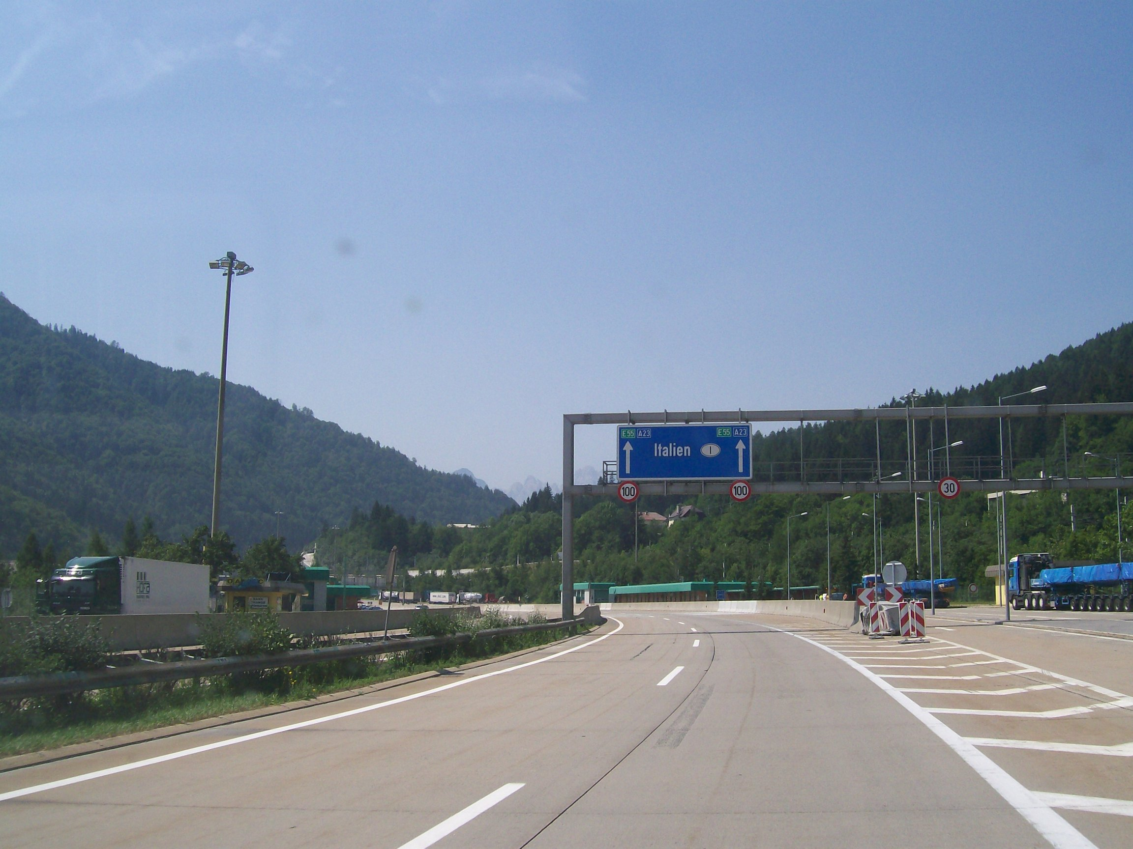 A2 Süd Autobahn near the Italian Border